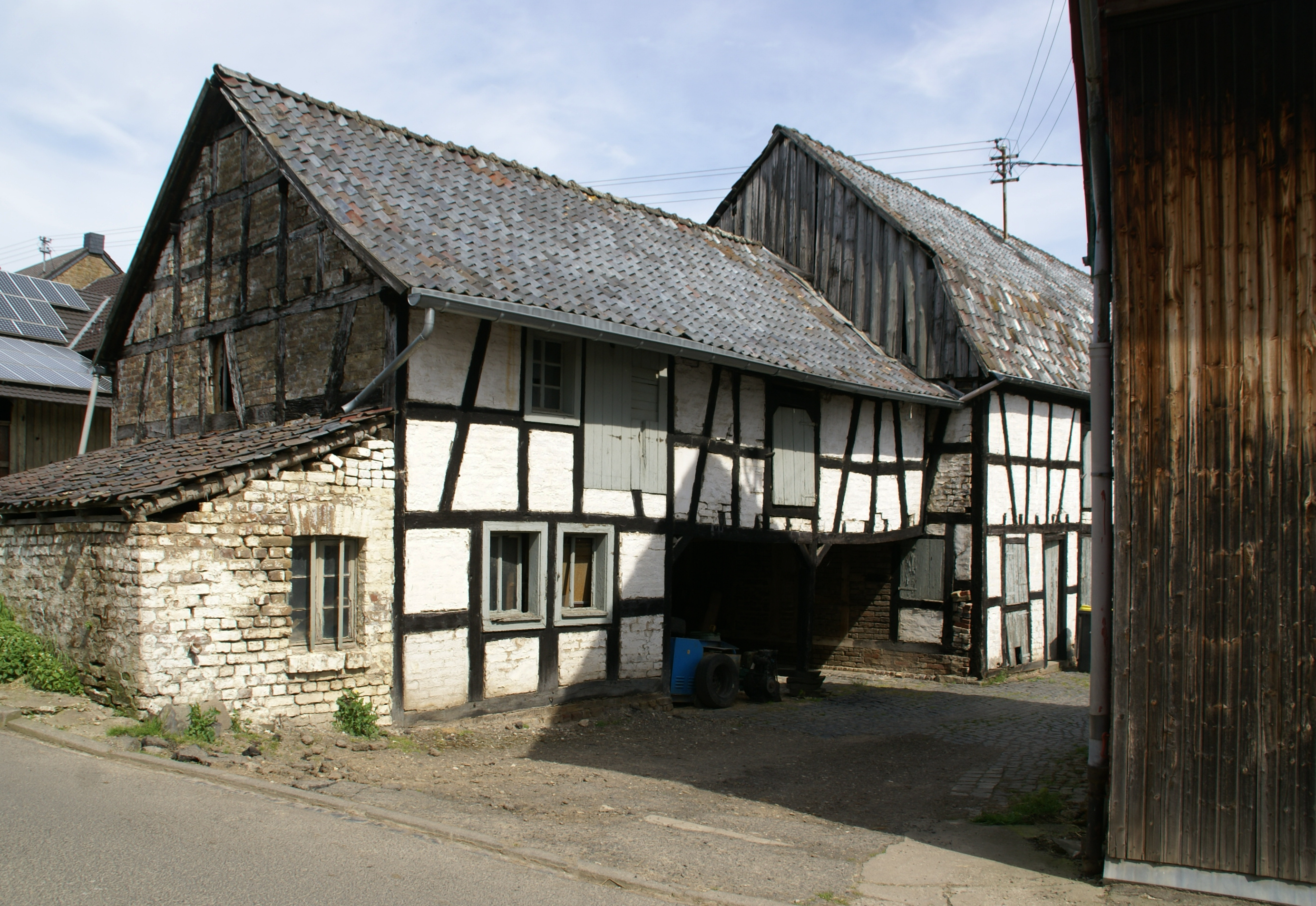 Half-timbered house in Bellinghausen, Bellinghausener Straße 21